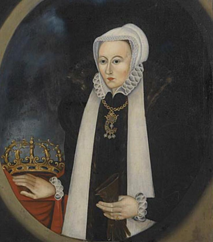 Portrait of Queen Catherine Stenbock of Sweden